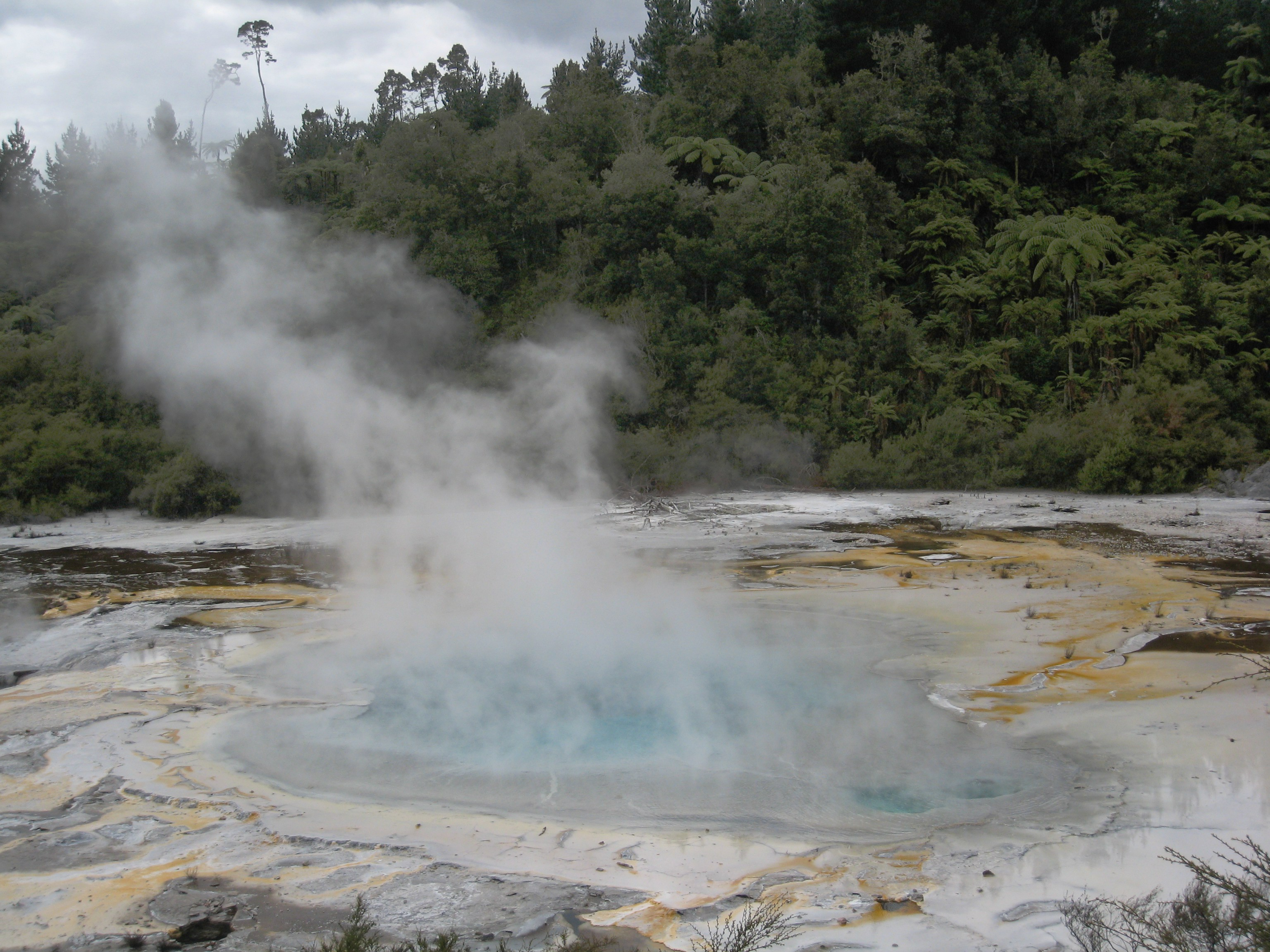 A hot pool on the Artist's Palette, Orakei Korako, near Taupo, New Zealand.